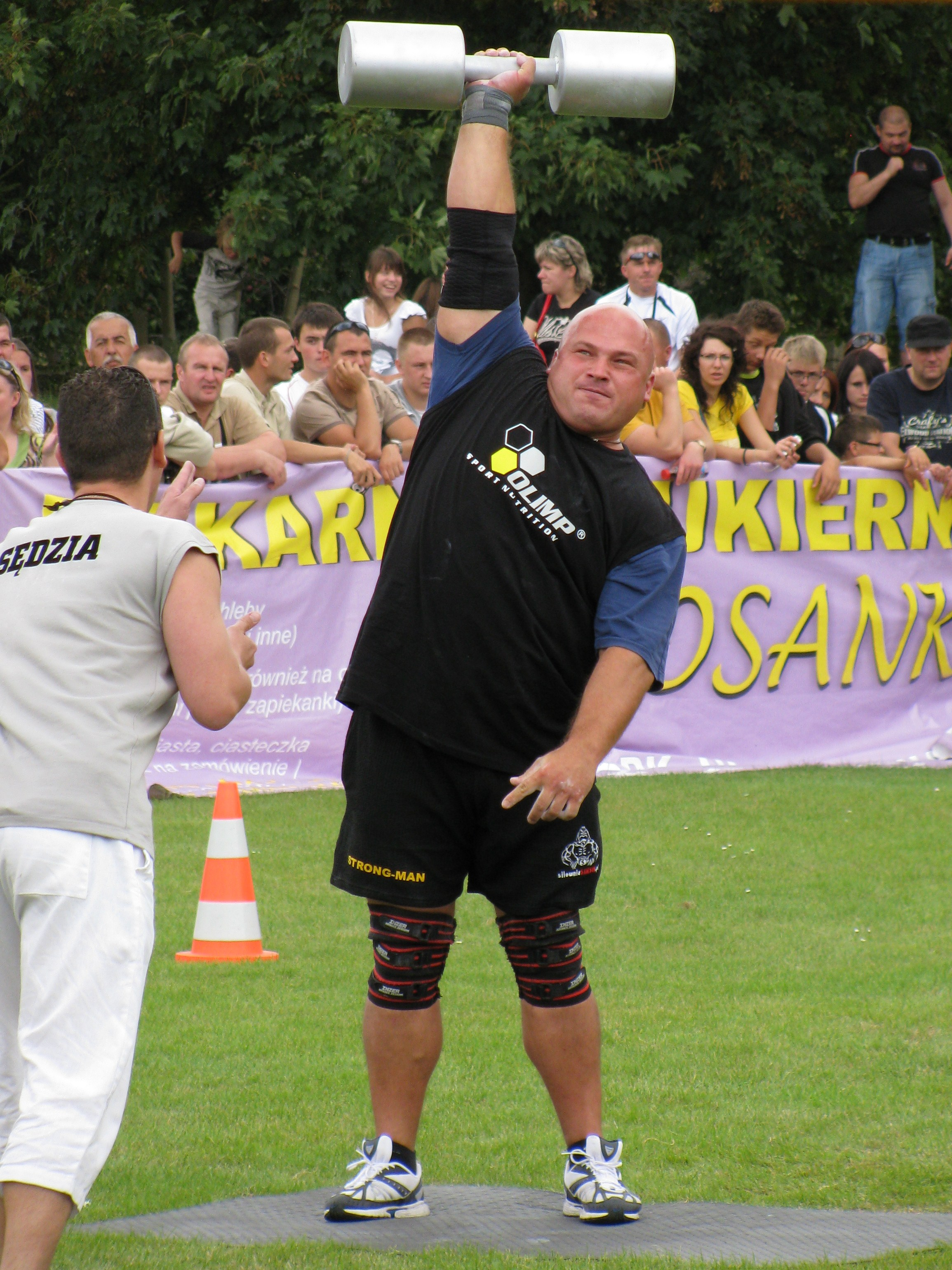 Gabriel Kowalski - a strength athlete from Poland